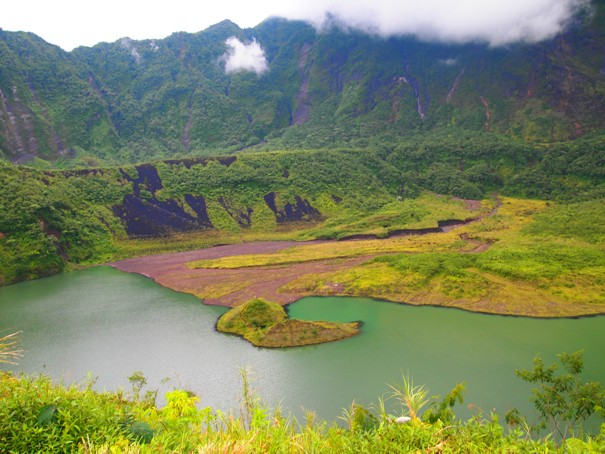 Mount Galunggung's volcanic crater offers a magnificent scenery, featuring a tranquil lake surrounded by tropical rainforests.